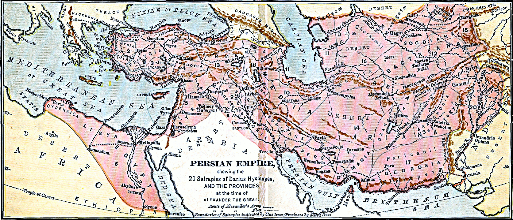 Cropped section of original image of three ancient maps, public domain Scanned by WMF intern Mike Hoffman, uploaded by Bastique, and cropped by Editor at Large